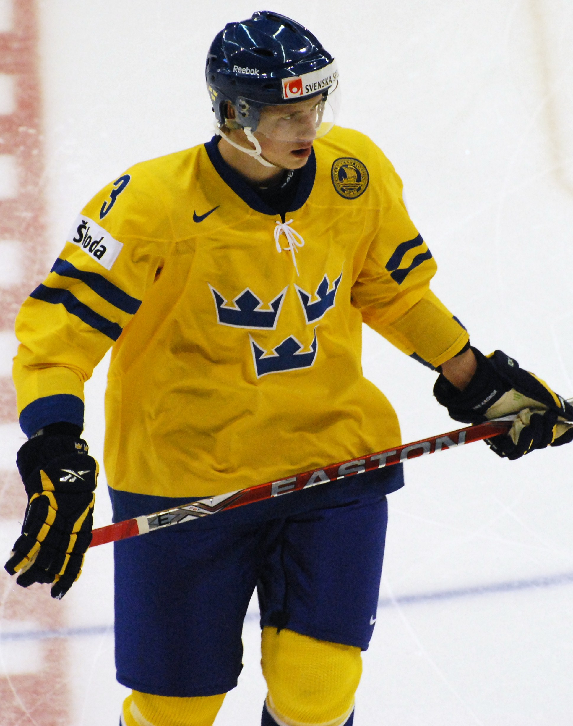 Swedish defenseman Oliver Ekman-Larsson during the 2010 World Junior Ice Hockey Championships